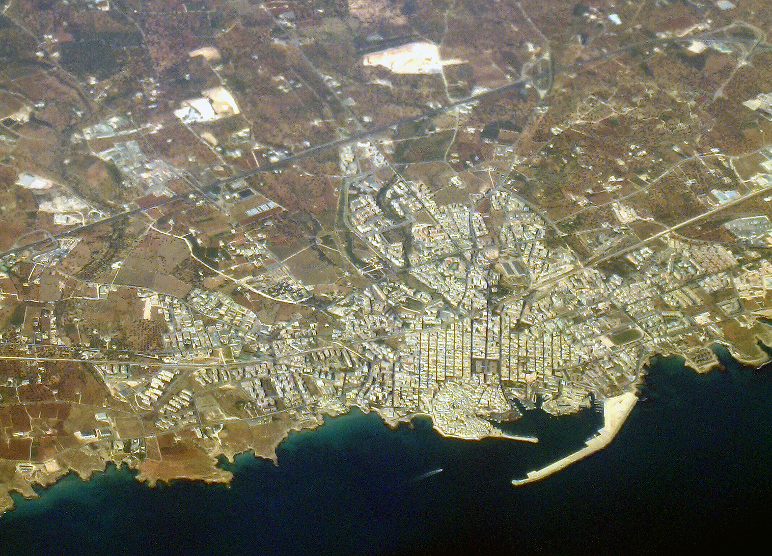 The Italian town of Monopoli, on the Adriatic Sea in the region of Apulia. Taken from the air on 07-Aug-2005 by Joolz.